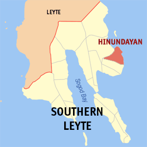 Map of Southern Leyte showing the location of Hinundayan